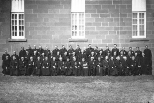 Clergy of the Chatham Diocese near the St-Pierre-aux-liens Church in Caraquet, New Brunswick, Ca. 1930, with bishop Patrice-Alexandre Chiasson in the middle.